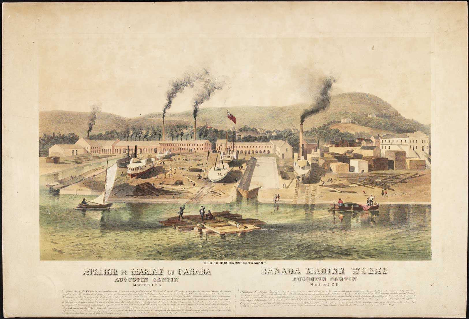 Lithograph of Canada Marine Works along Lachine Canal in Montreal.